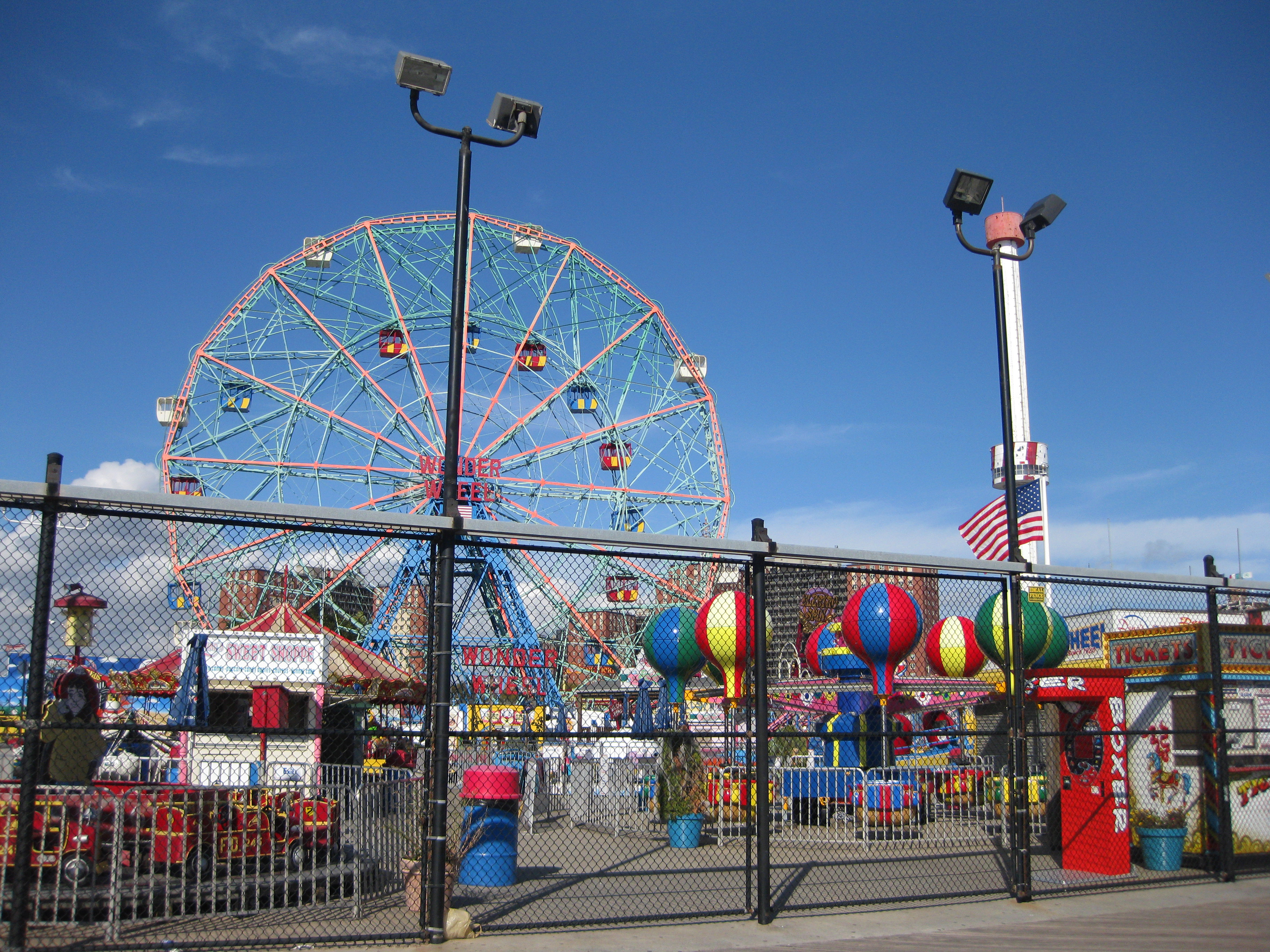 Coney Island, New York